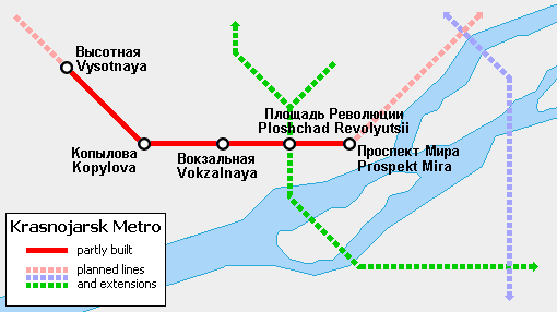 Map of the Krasnoyarsk Metro, English transcription and labeling